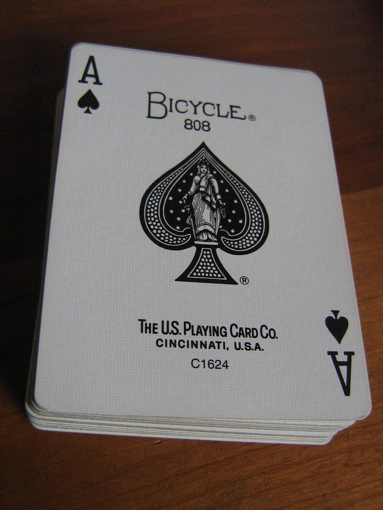 Ace of spades from the brand Bicycle n° 808 with Air-cushion finish, produced by the US Playing Cards Compagny